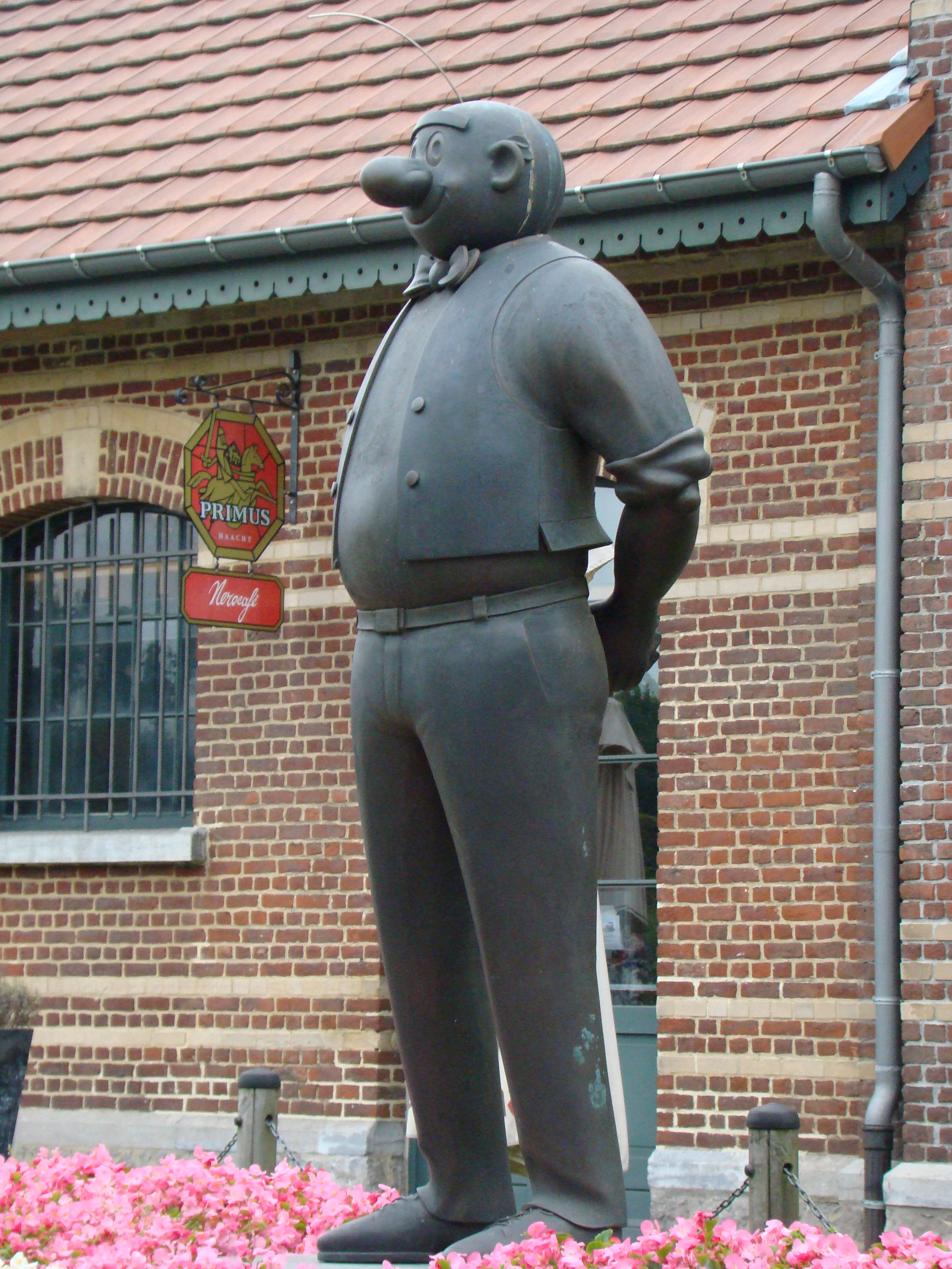 Statue of Nero, a Flemish comic, Hoeilaart (Flemish Brabant, Belgium)